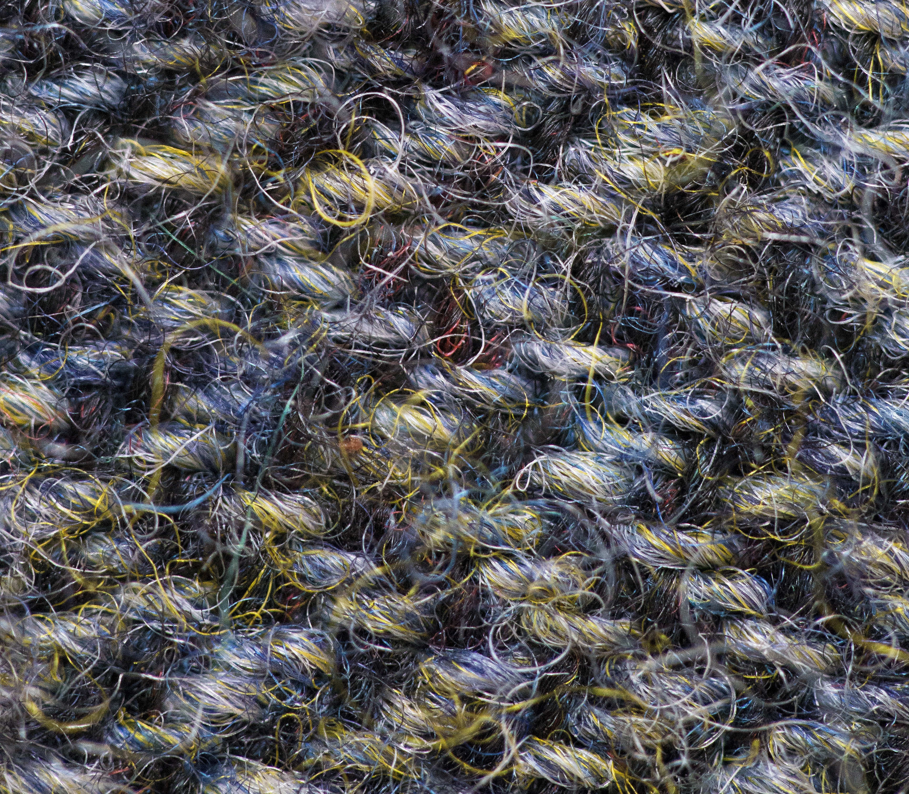 Harris Tweed Cloth Macro photography